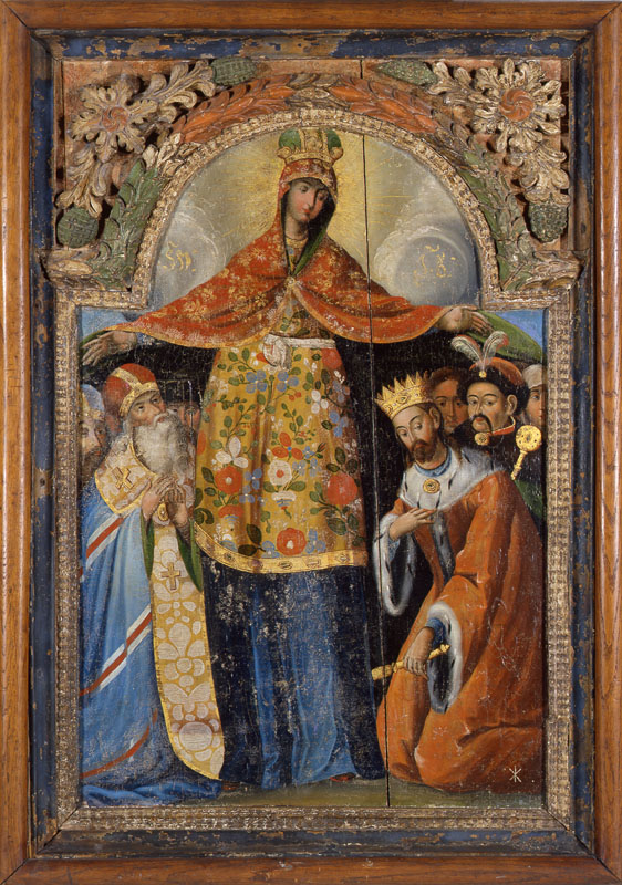 Icon of the Intercession of the Holy Virgin, with the Ukrainian cossack hetman Bohdan Hmelnystky (at the right of image). Late 17 to early 18th C. (National Art Museum of Ukraine)